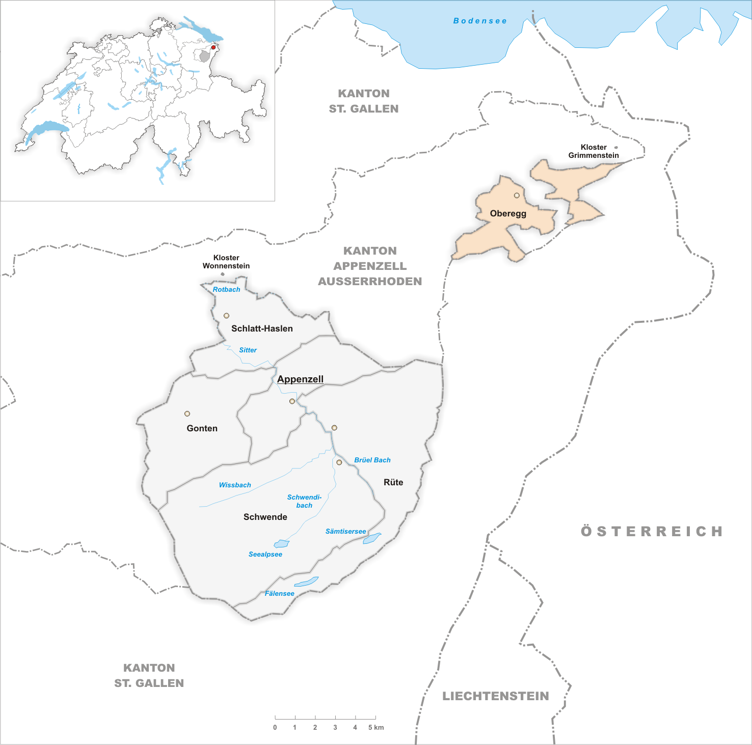 Municipality of Oberegg